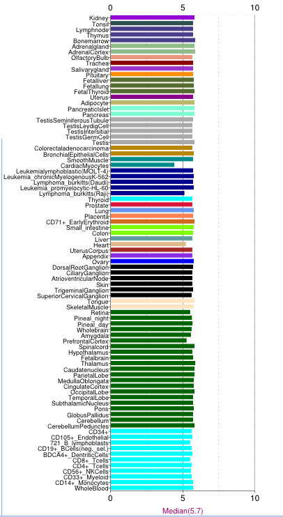 A SymAtlas review of where FAM167A is expressed in humans.